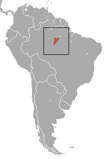 Santarem Marmoset (Mico humeralifer) range